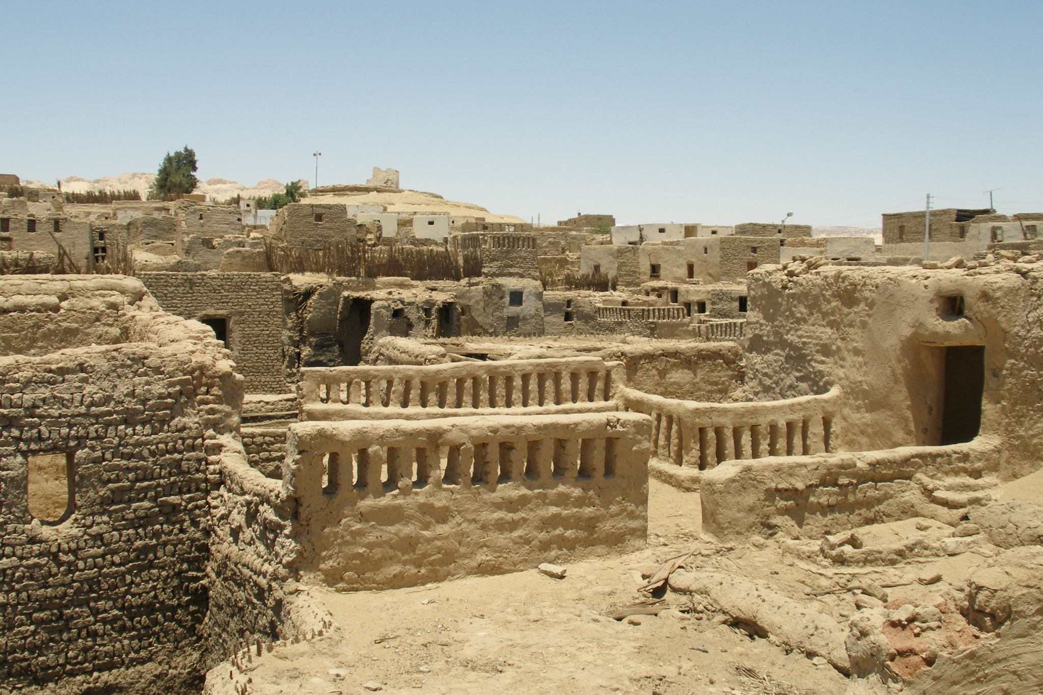 The medina district in the settlement of Al-Qasr in the Dakhla Oasis of western Egypt. NOTE: The copyright owner, Vyacheslav Argenberg, requests here that these two lines of text below must be attached to this photo if it is used. © VascoPlanet Photography Argenberg requests that the link to the photo album's home page should be clickable if possible. Argenberg also requests that he be notified of each use of this image here either by flickrmail or, if you don't have a flickr account, by E-mail: argenberg(at)